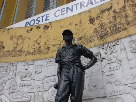 Leclerc monument at Douala/Cameroon